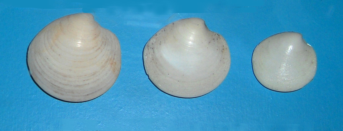 Dosinia lupinus lincta, the smooth Artemis, a saltwater bivalve belonging to the family Veneridae